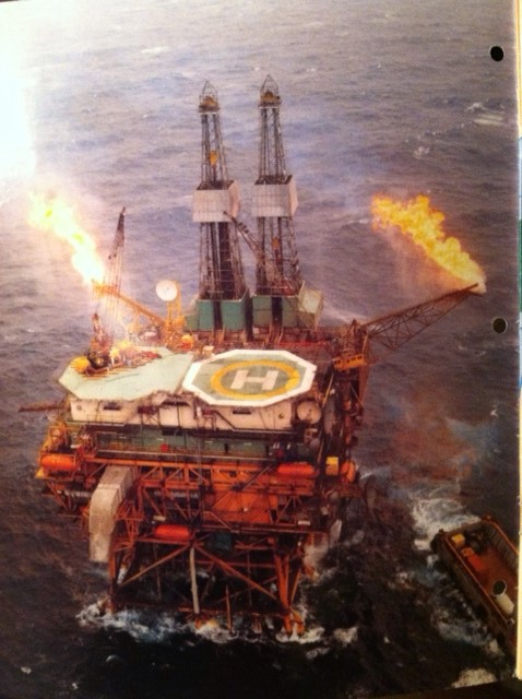 A Bawden Drilling Southeast Asian ocean oil rig; circa 1980.